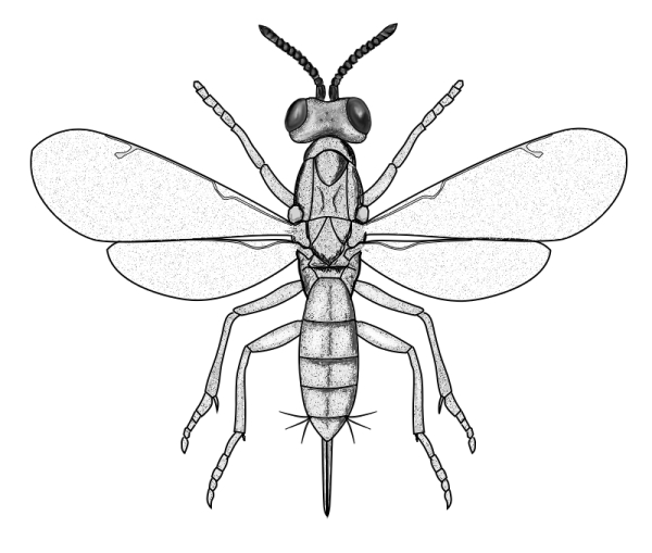 Details Female of Eupelmus urozonus (DALMAN, 1820) (Hymenoptera Eupelmidae) Date: March 2007 Author: Giancarlo Dessì (Posted by --gian_d 20:26, 17 March 2007 (UTC))